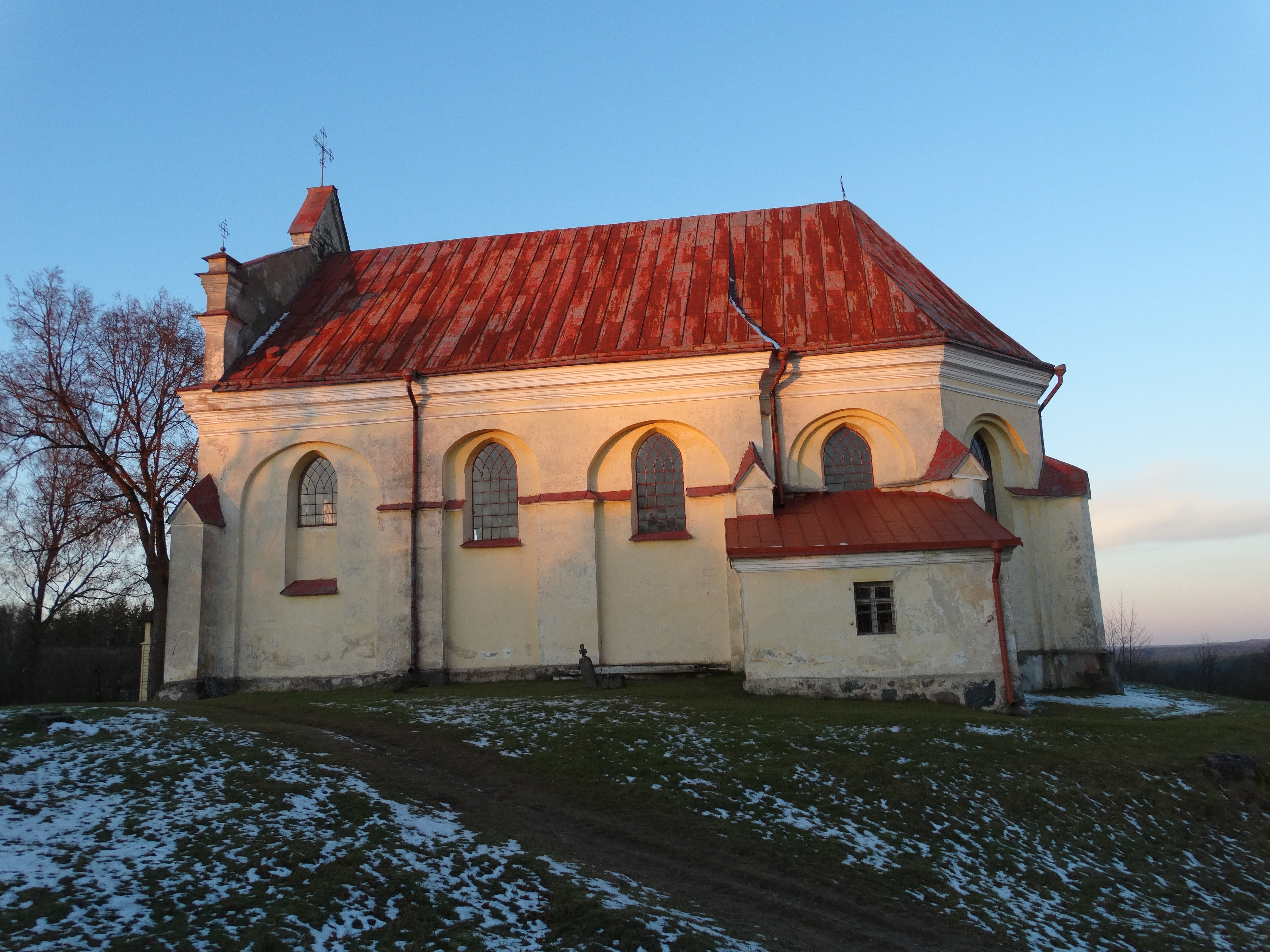 Holy Trinity church, Rykantai, Trakai district, Lithuania